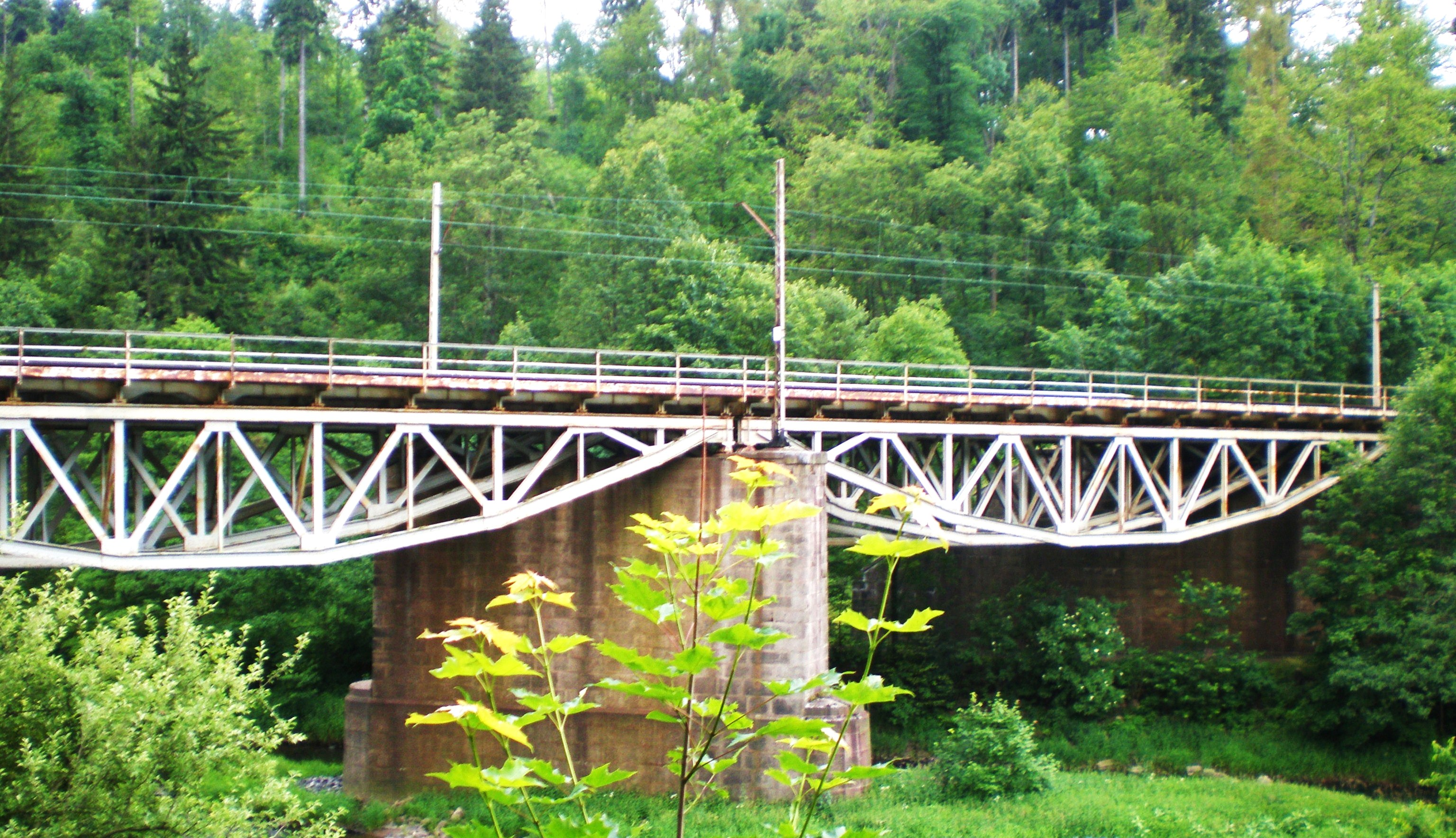 The railway bridge over the Beaver River